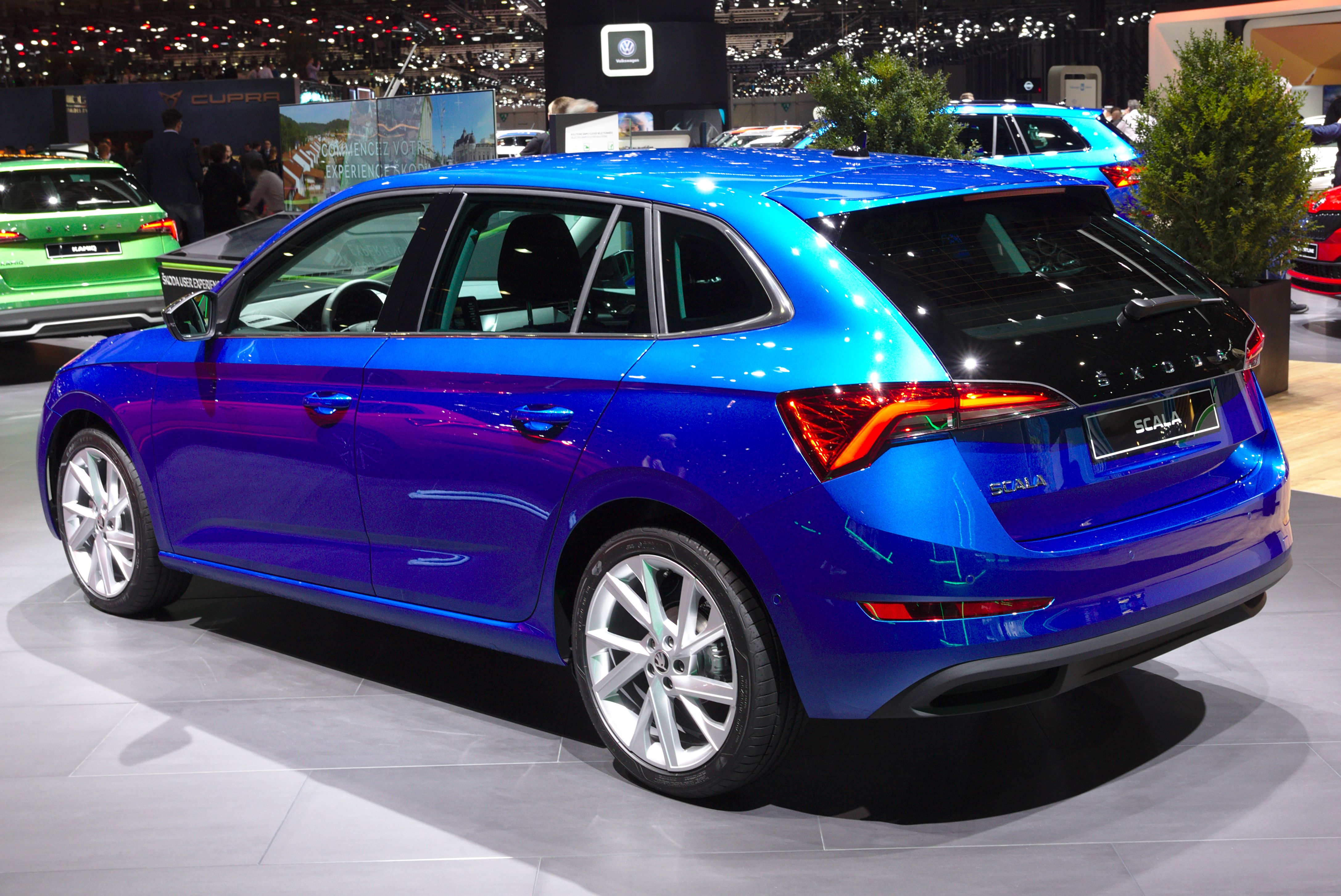 Skoda Scala at Geneva Motor Show 2019